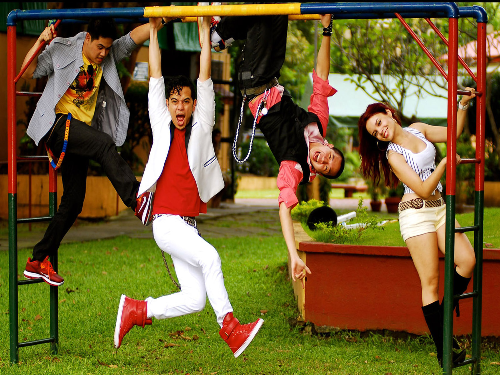 Photoshoot at Magallanes